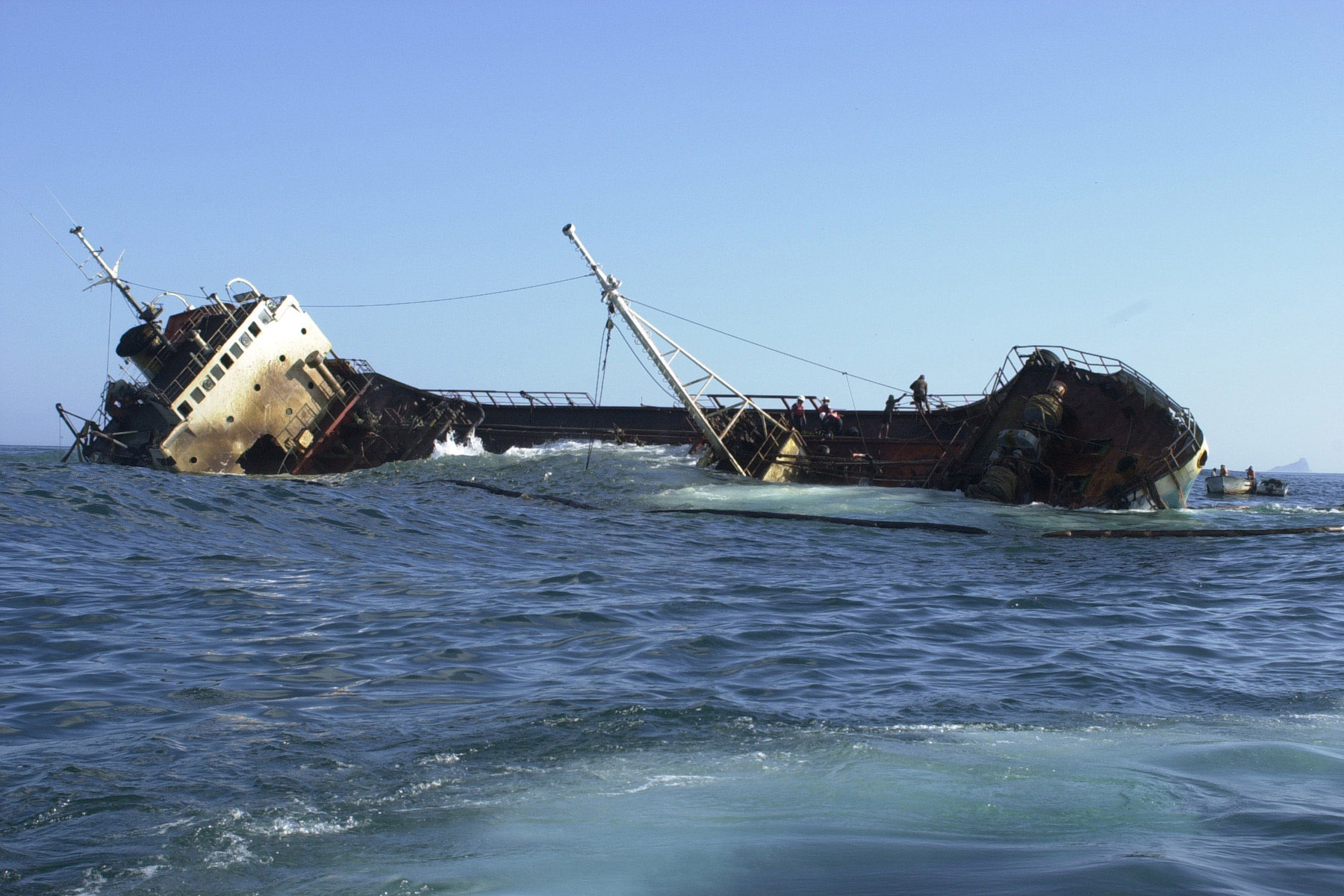 The tank vessel Jessica ran hard aground in the Galapagos archipelago January 16, 2001, spilling about 200,000 gallons of oil into a pristine environment known for unique wildlife and aquatic species.